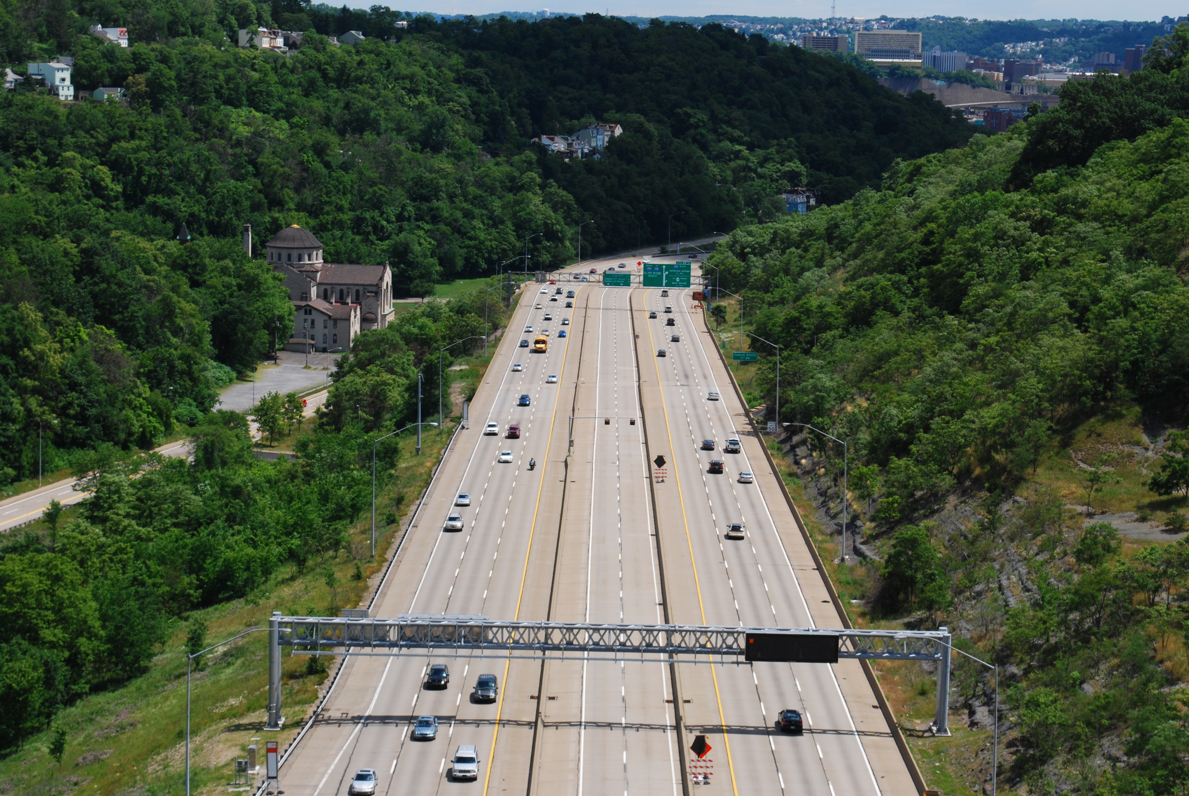 Interstate 279 just outside of Pittsburgh.